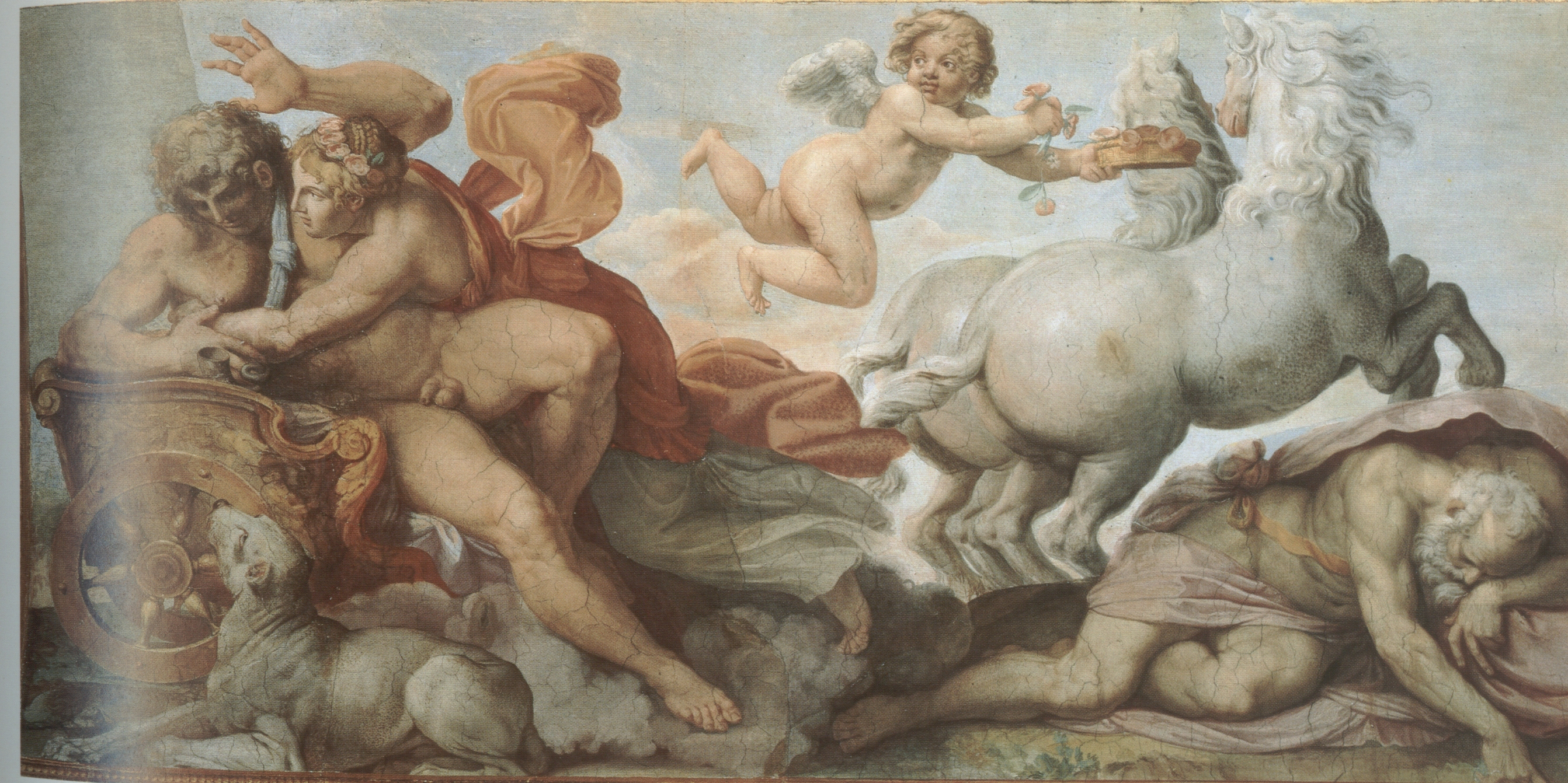 Aurora_and_Cephalus_-_Agostino_Carracci_-_1597_-_Farnese_Gallery,_Rome